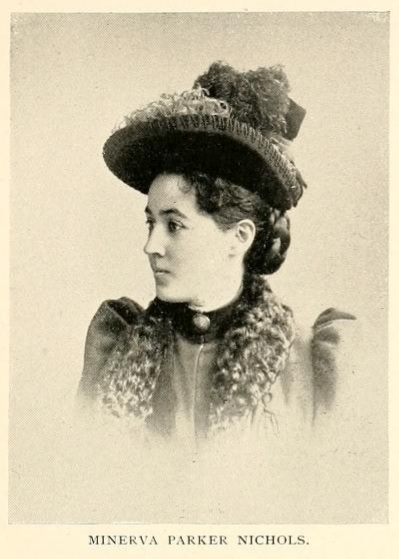 Photographic portrait of American architect Minerva Parker Nichols (1860–1945). From American Women: Fifteen Hundred Biographies with Over 1,400 Portraits, Frances E. Willard and Mary A. Livermore, editors. Mast, Crowell & Kirkpatrick, 1897 (revised edition from 1893), vol. 2, p. 536